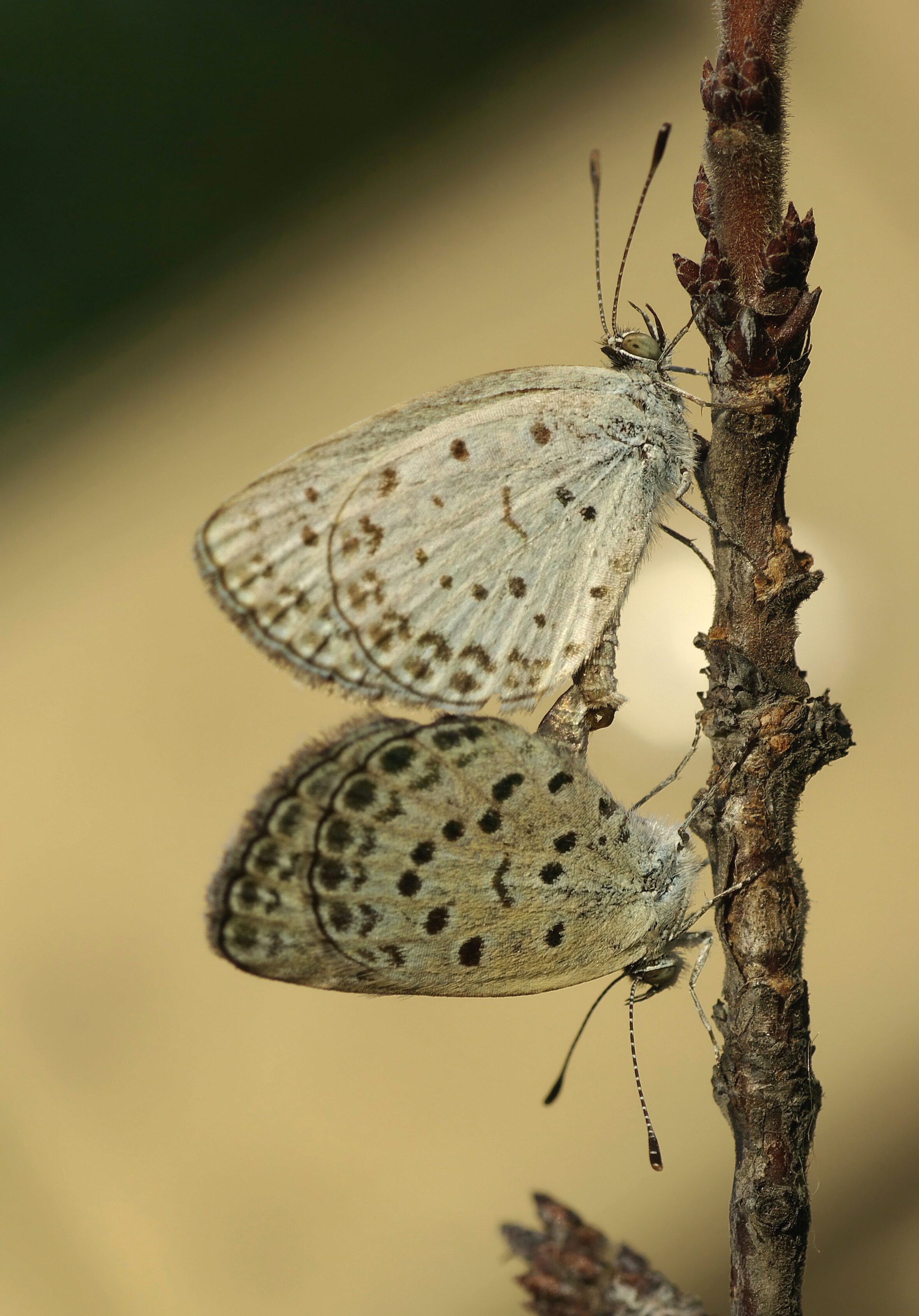 Pale Grass Blue, mating